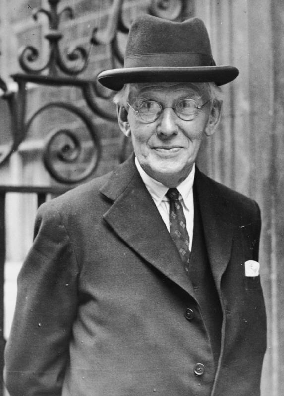 British Political Personalities 1936-1945 The Attlee Administration 1945 -1951: Lord Pethwick-Lawrence, the Secretary of State for India and Burma, arriving at No 10 Downing Street for a meeting.